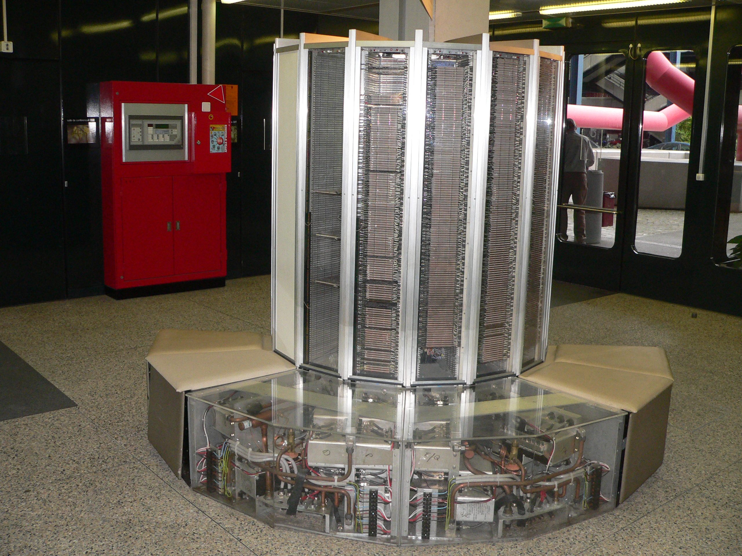 CRAY-1 (no longer used, of course) displayed in the hallways of the EPFL in Lausanne.